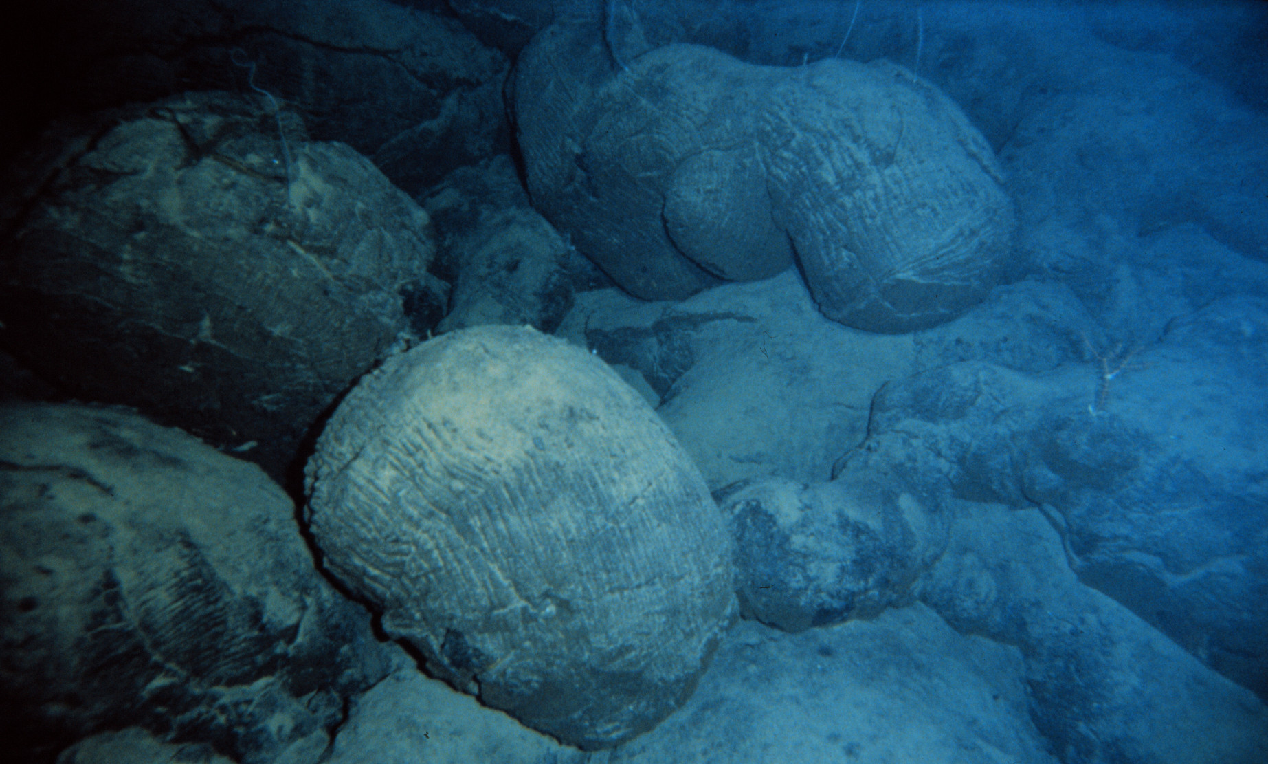 Pillow basalts on the Pacific seafloor (Hawaii): Courtesy of NOAA.